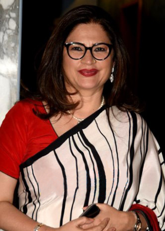 Kunika graces the screening of Sonata